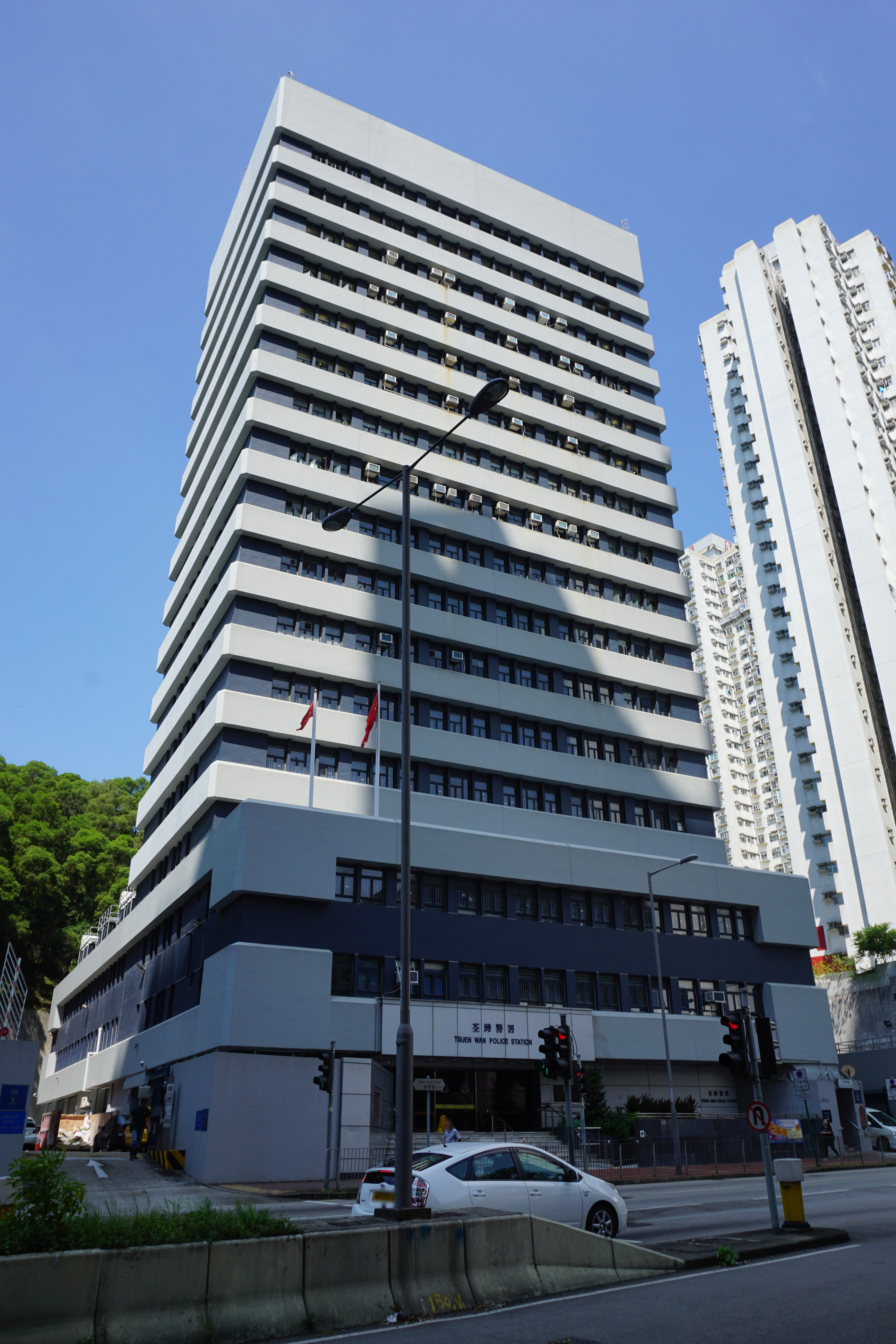 Police Station in Tsuen Wan, Hong Kong.